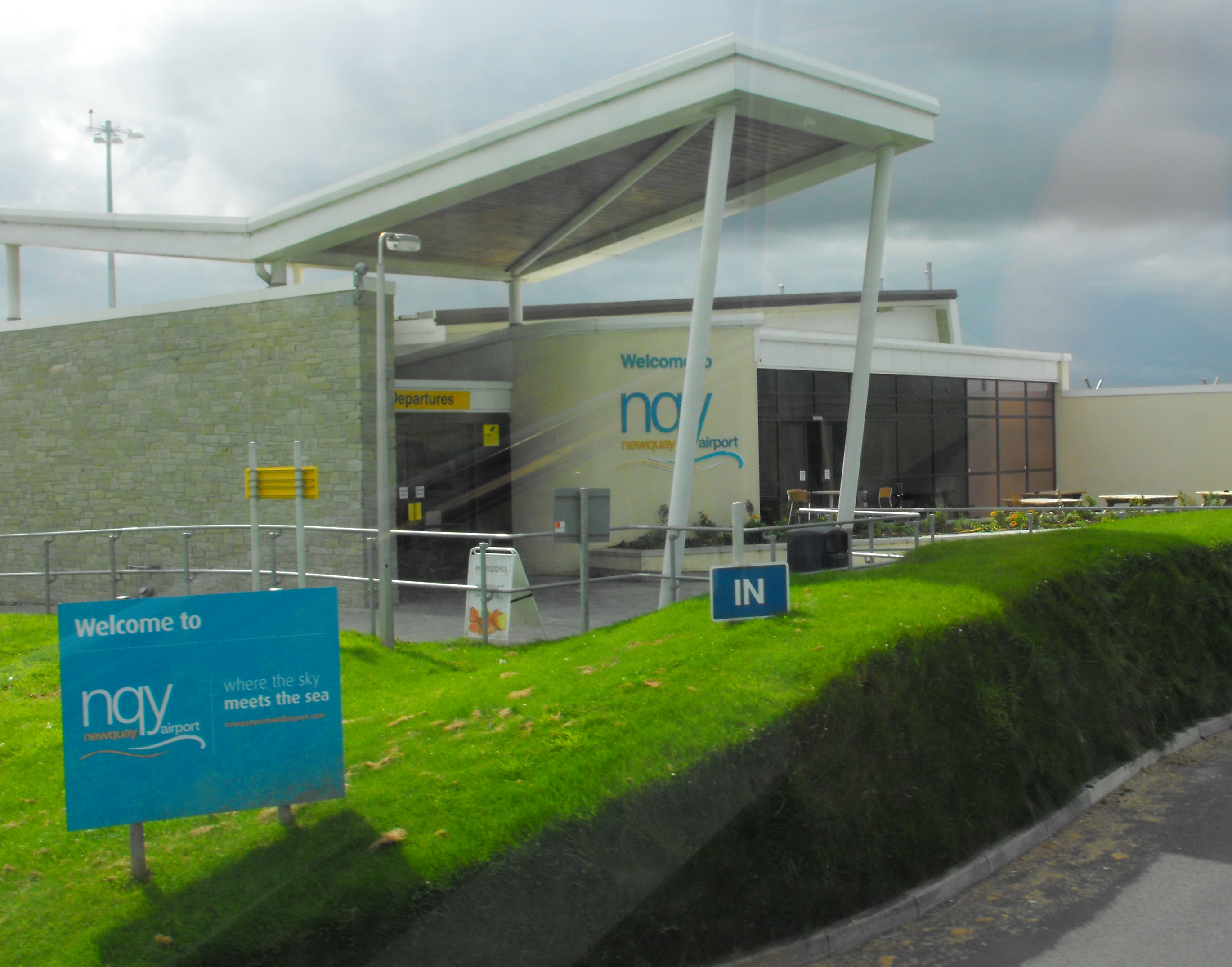 Airport NQY